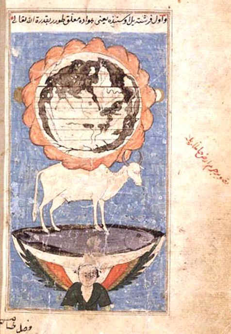 Zekeriya Kazvinî published a book that was influential in early modern Islamic society (~ 16th century CE). The map shows Islamic view of how universe is structured, how sky and earth are supported, while being consistent with Quranic verse 22:65. According to this version of cosmology, sky is held by Allah so that it does not fall on earth. The earth is considered flat and surrounded by mountains of Qaf, supported by an ox, the ox stands on a fish in a cosmic ocean, the ocean is inside a bowl that sits on top of an angel/devil.Zekeriya Kazvinî. Acaib-ül Mahlûkat (The Wonders of Creation). Translated into Turkish from Arabic. Original published in 1553 AD. Archived at the Library of Congress